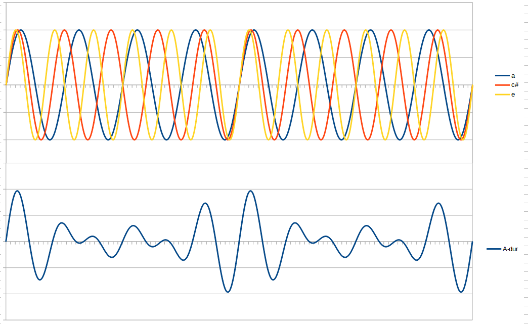 Major chord waveform